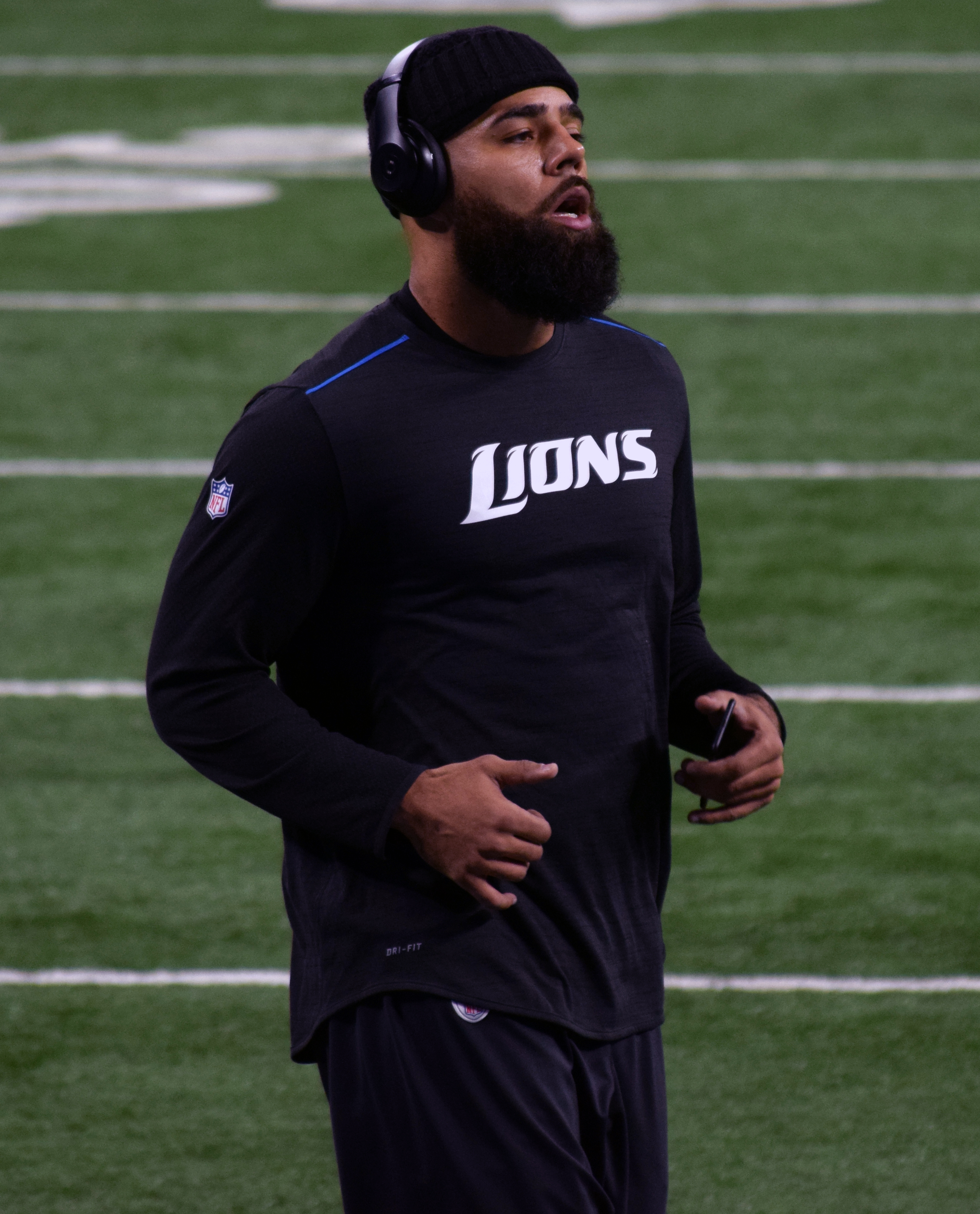 DeAndre Levy Warming Up For A Game On January 1, 2017